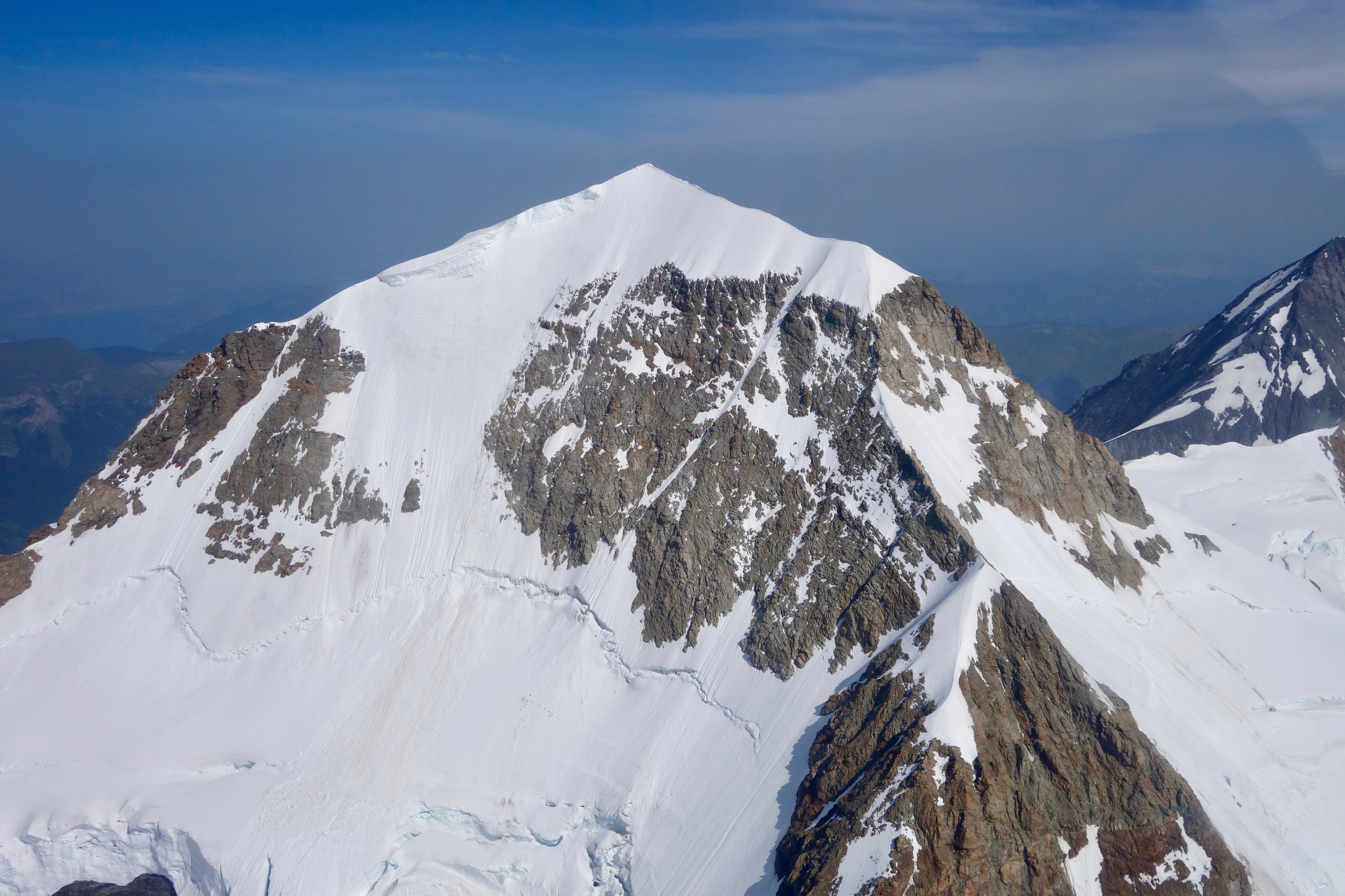 Aerial image of Mönch, Switzerland